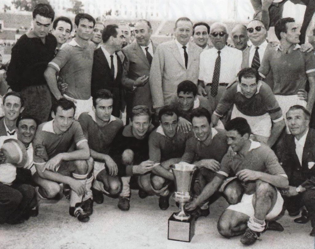 Rome (Italy), Olympic Stadium, June 21, 1962. A.C. Napoli — SPAL 2-1, 1961–62 Coppa Italia Final: Napoli's first-team squad posed with the trophy.